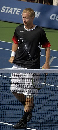 Lukas Dlouhy at the 2008 Rogers Cup